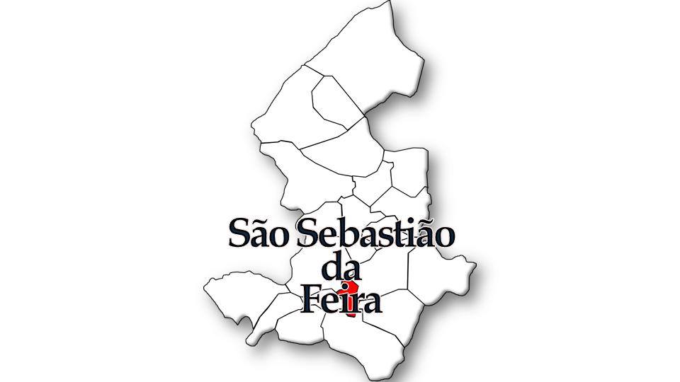 Map showing the location of São Sebastião da Feira in Oliveira do Hospital